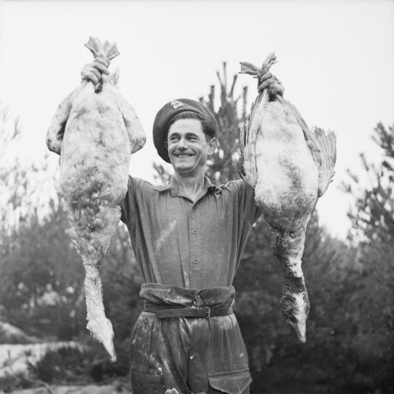 Gunner Jack Ward of 9th Medium Regiment, Royal Artillery, holds aloft two geese destined to become Christmas dinner, near Geilenkirchen, Germany, 19 December 1944. Gunner Jack Ward of 9th Medium Regiment, Royal Artillery, holds aloft two geese destined to become Christmas dinner, near Geilenkirchen, 19 December 1944.